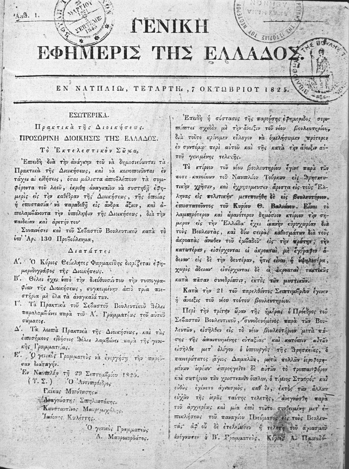 Geniki Efimeris tis Ellados (General Newspaper of Greece), first page of the first issue, 7 Oct. 1825